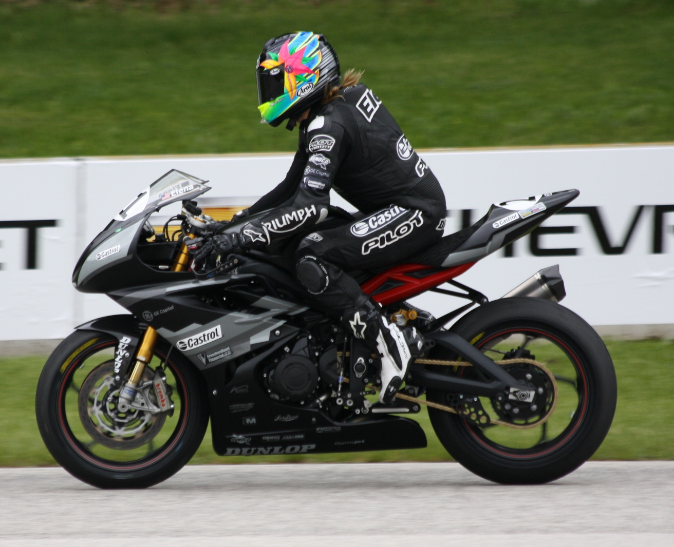 AMA Pro rider Elena Myers competing on her Sportbike at the Subway SuperBike Doubleheader weekend race at Road America on Sunday.